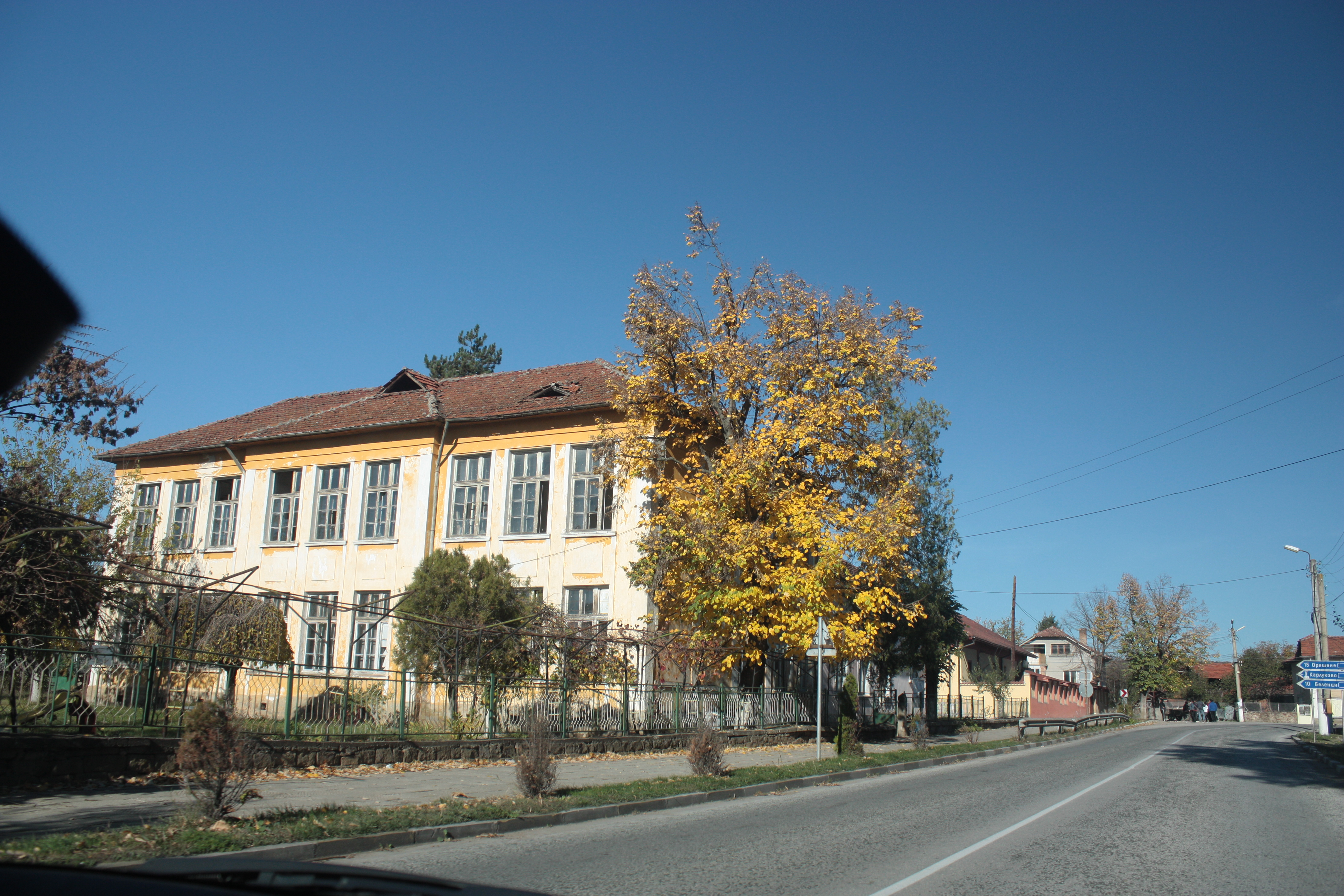 Petrevene School